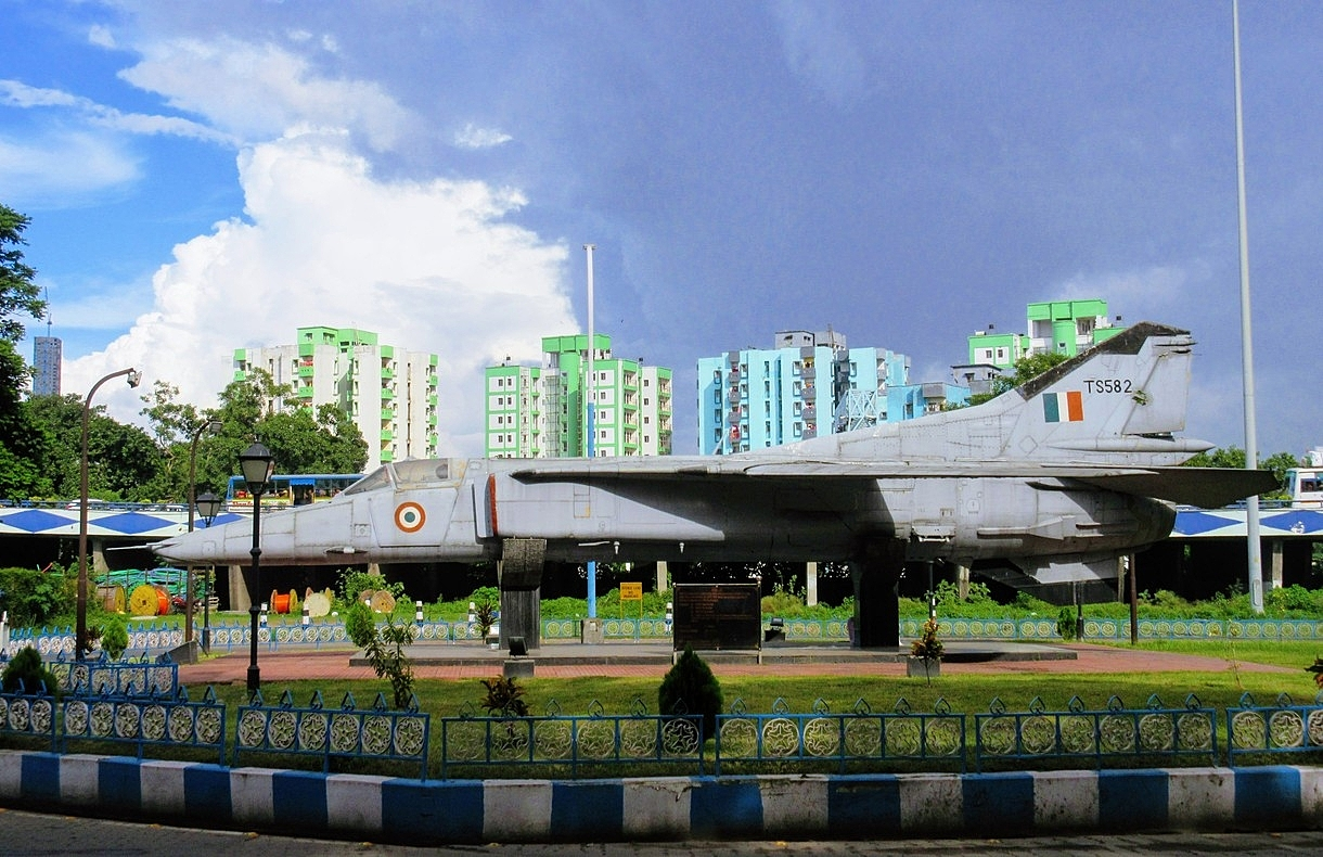 A replica of a Fighter Jet plane at Hastings near Princep Ghat and Fort William in Kolkata (Calcutta), kept for public display